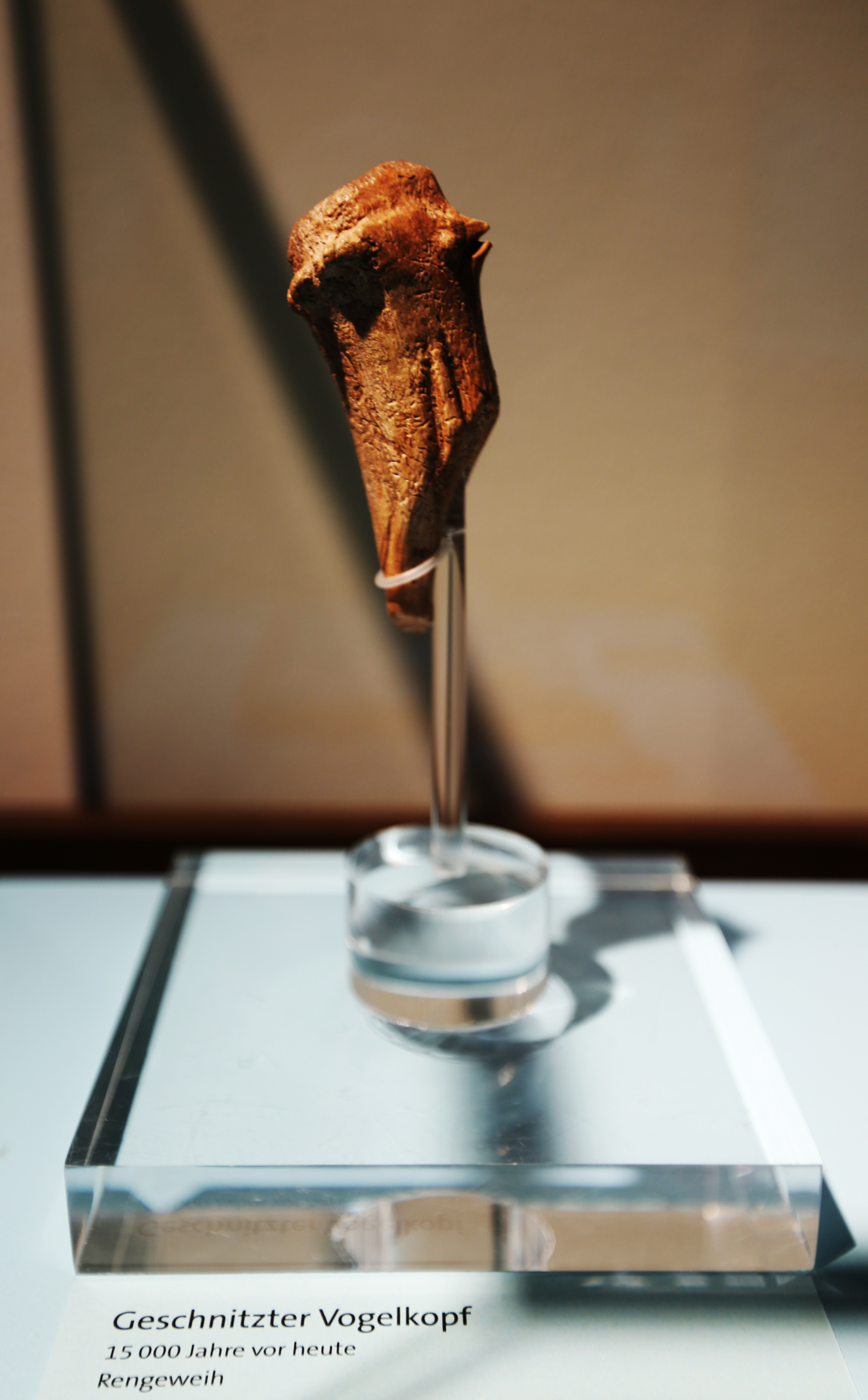 Glacial period, bird head hand-carved antler located in Andernach, Germany